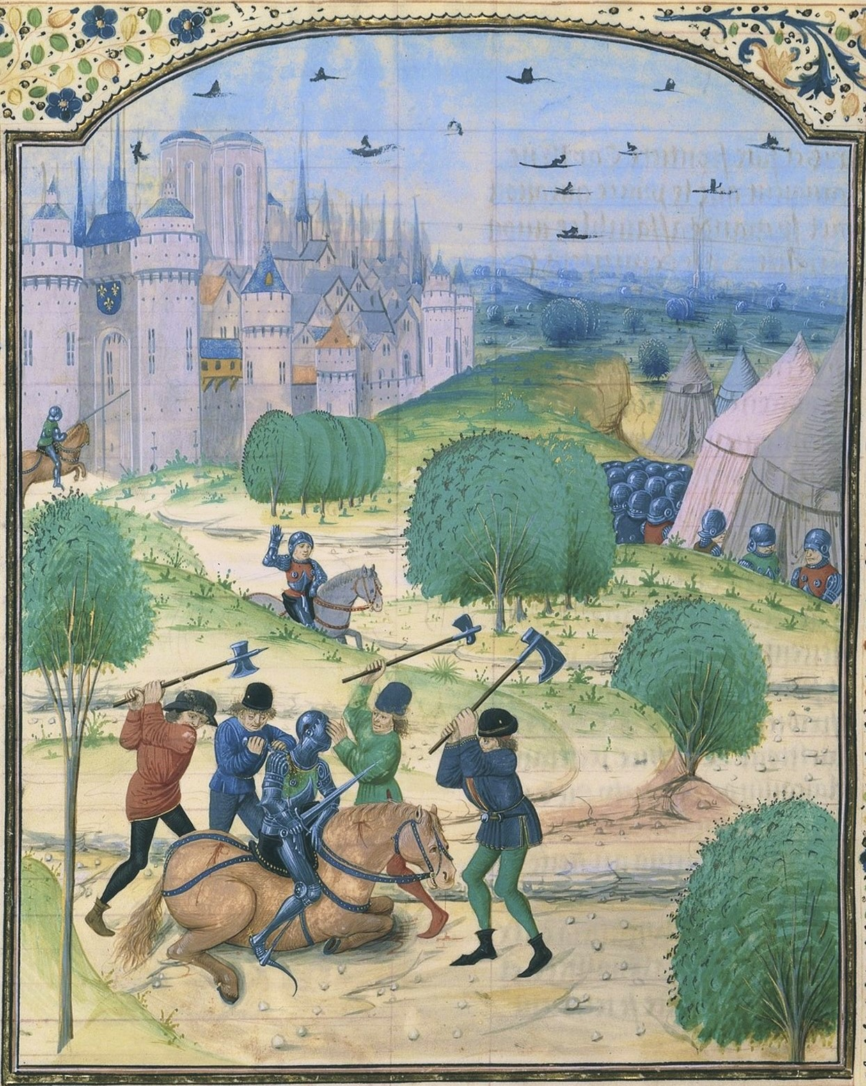 Peasants murder a knight.